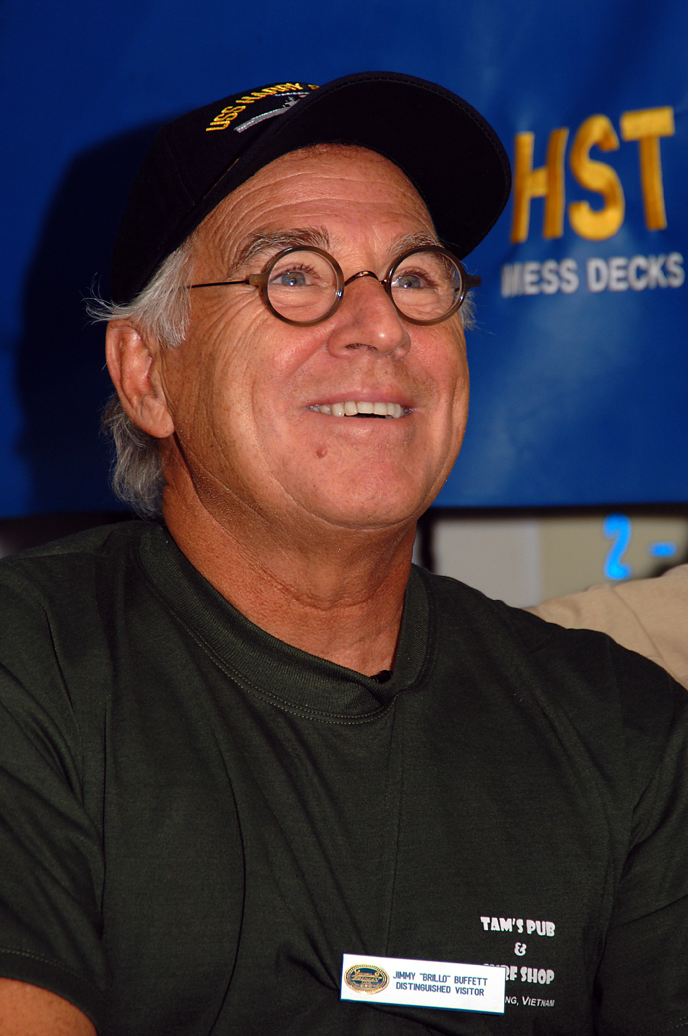 Recording artist Jimmy Buffett looks up to speak with a Sailor during an autograph signing session on the mess decks aboard the Nimitz-class aircraft carrier USS Harry S. Truman (CVN 75).